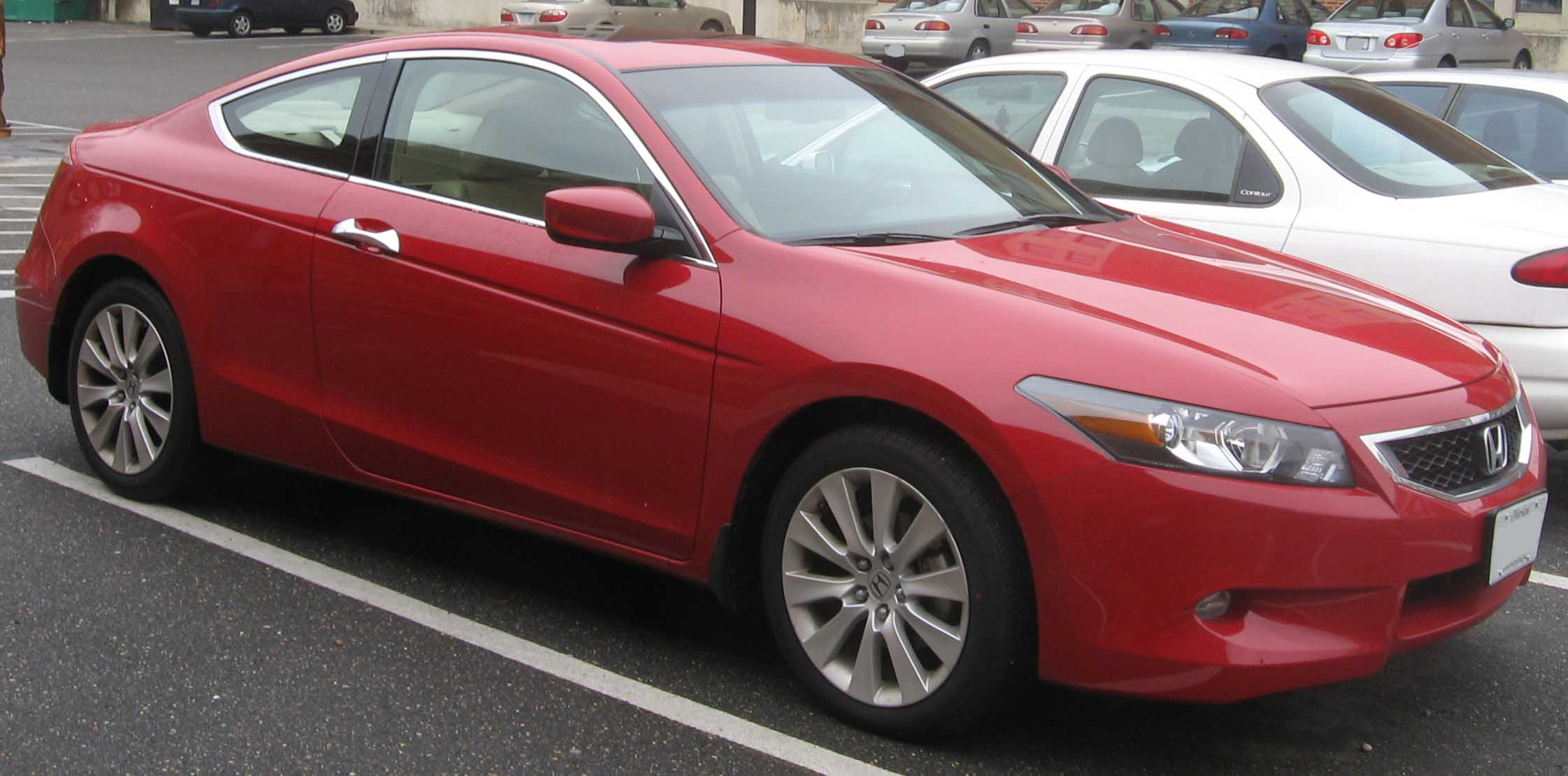 2008 Honda Accord photographed in College Park, Maryland, USA.